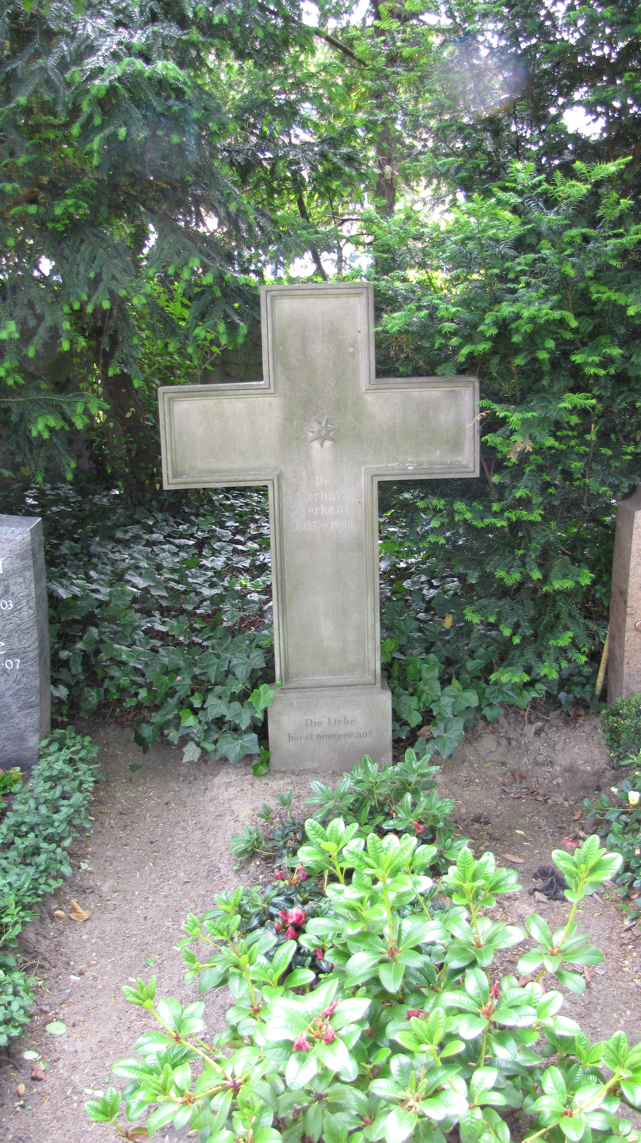 Grave of Gerhard Gerkens, museum director, St. Jürgen cemetery, Lübeck